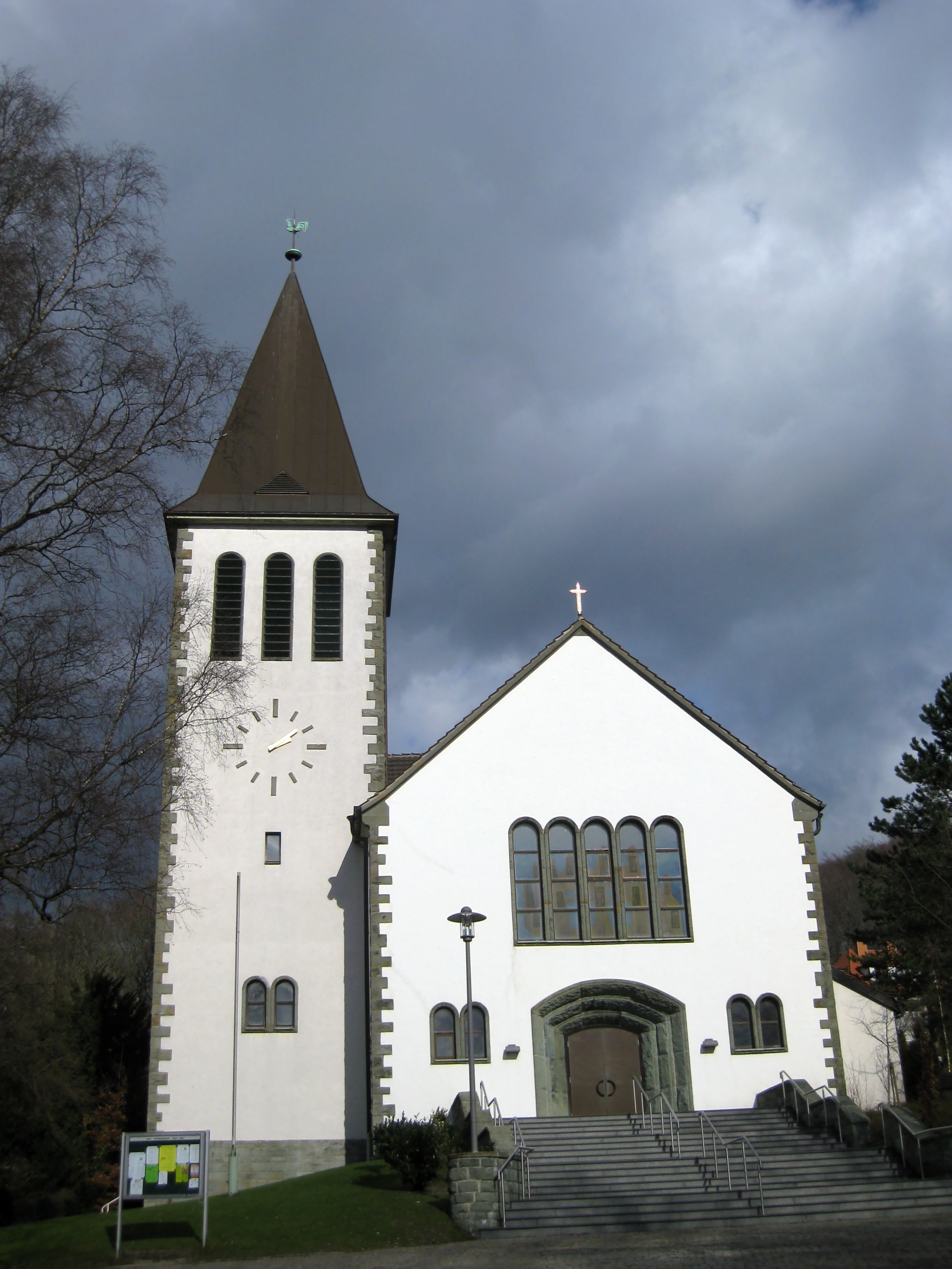 catholic parish church Herz Jesu in Bielefeld-Brackwede